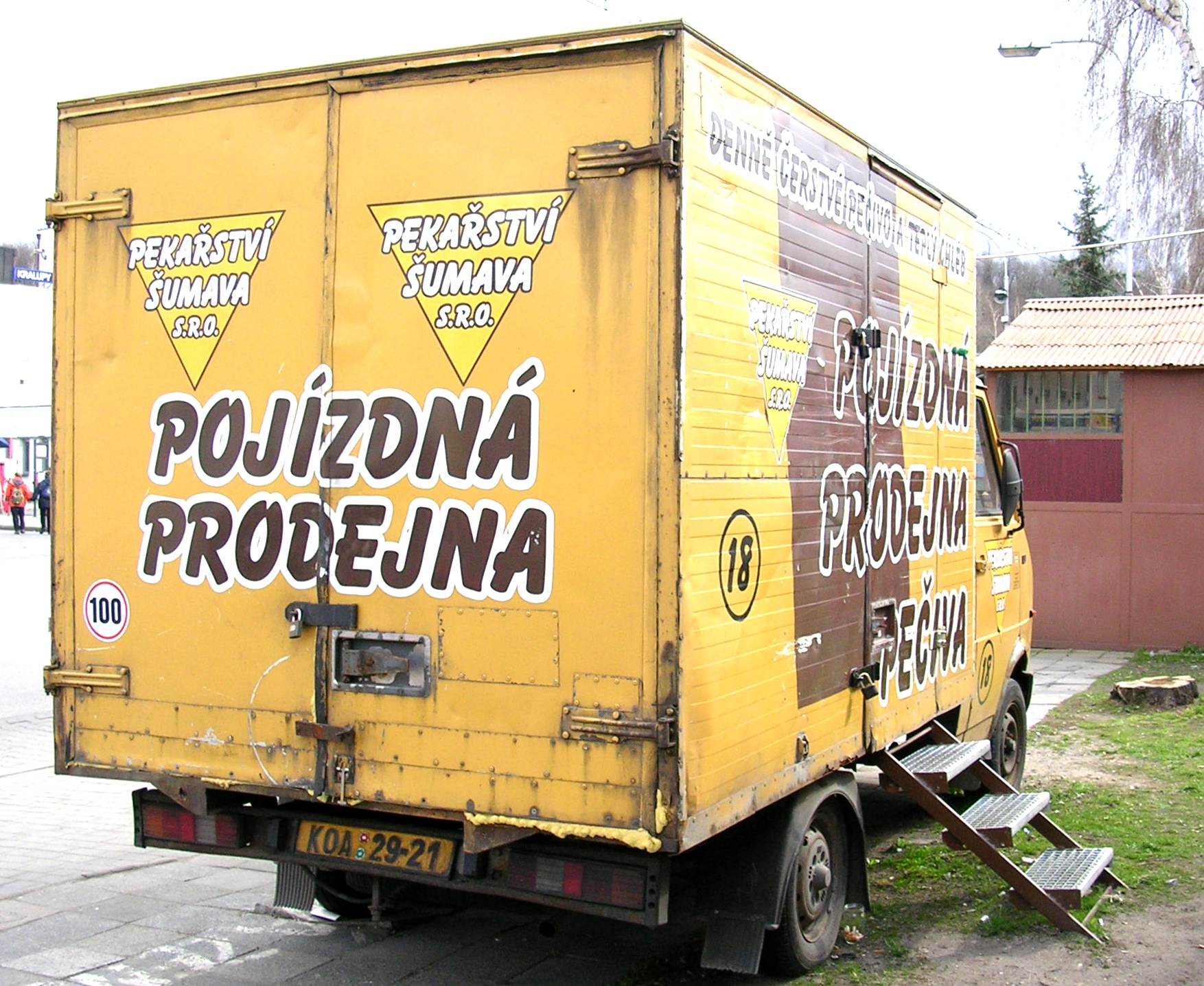 Kralupy nad Vltavou, the Czech Republic.